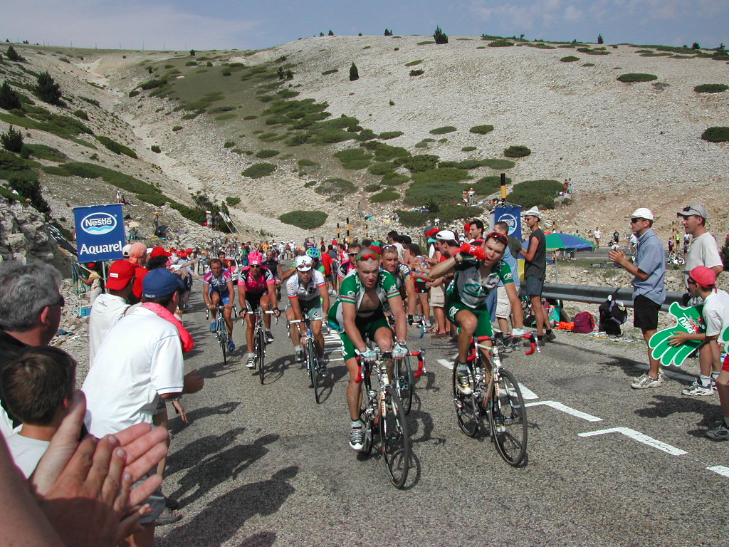 Erik Zabel, Christophe Mengin, Stuart O'Grady and some more cyclists. Tour de France 2002, Mont Ventoux.